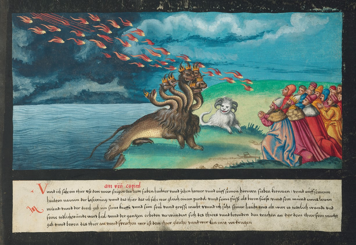 Folio 187, Revelation 13:1-4: "And I saw a beast rising out of the sea, with ten horns and seven heads, with ten diadems on its horns and blasphemous names on its heads. And the beast that I saw was like a leopard; its feet were like a bear's, and its mouth was like a lion's mouth. And to it the dragon gave his power and his throne and great authority. On of its heads seemed to have a mortal wound, but its mortal wound was healed, and the whole earth." Augsburger Wunderzeichenbuch, c. 1550